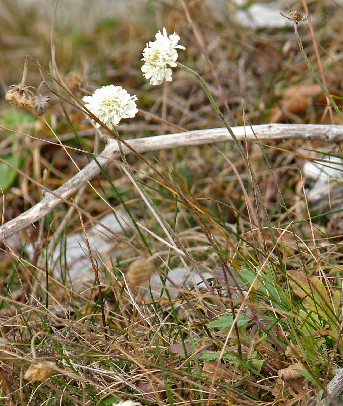 Scabiosa ochroleuca, Gschwendtberg, Frohnleiten, Styria, Austria, about 930m